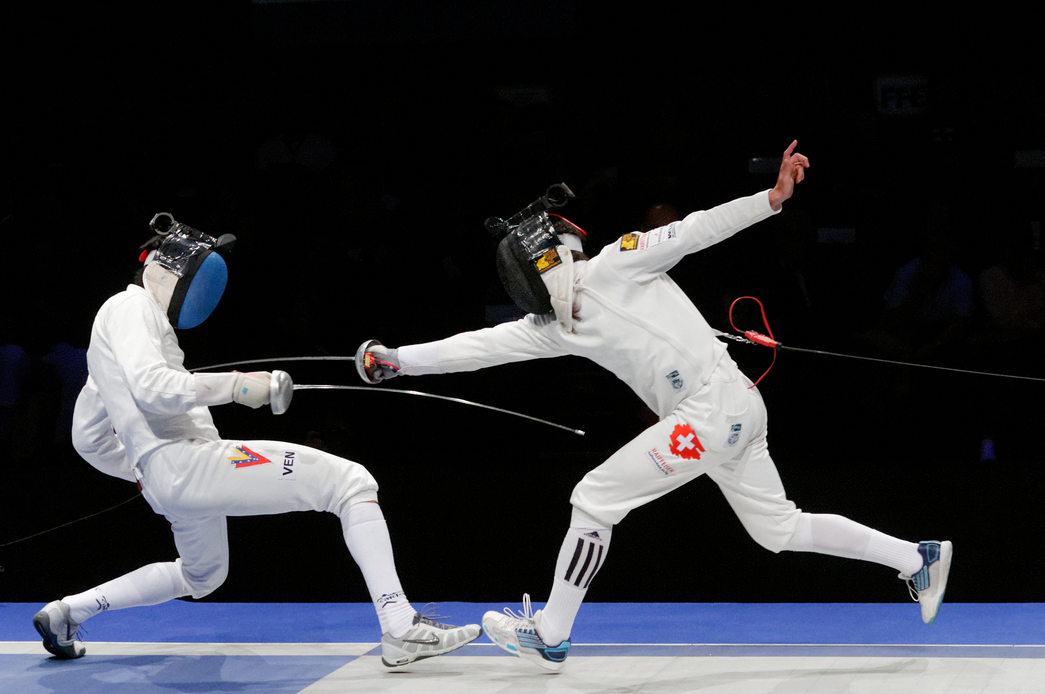 Quarter-finals of the Masters à l'épée 2012: Silvio Fernández (left) v Max Heinzer (right).